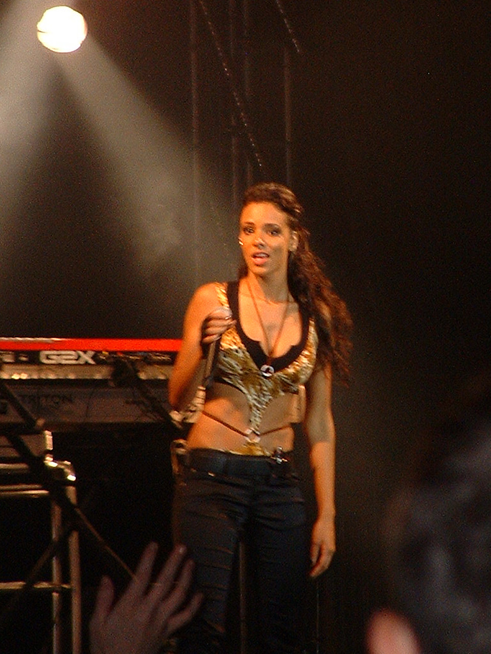 Singer Shy'm in Amiens (2007)